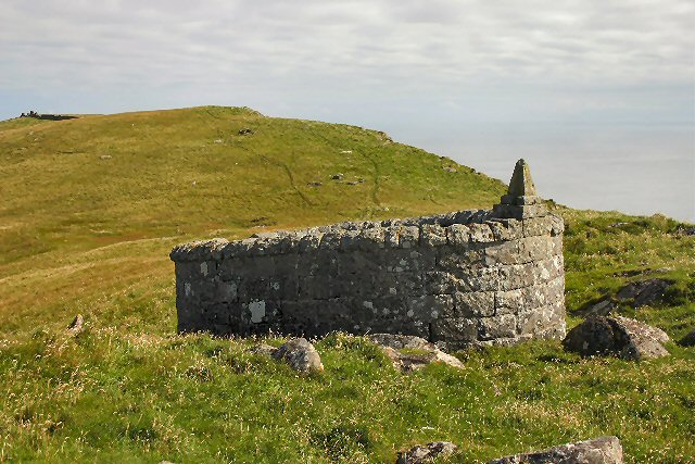 Barra Head cemetery, Outer Hebrides, Scotland